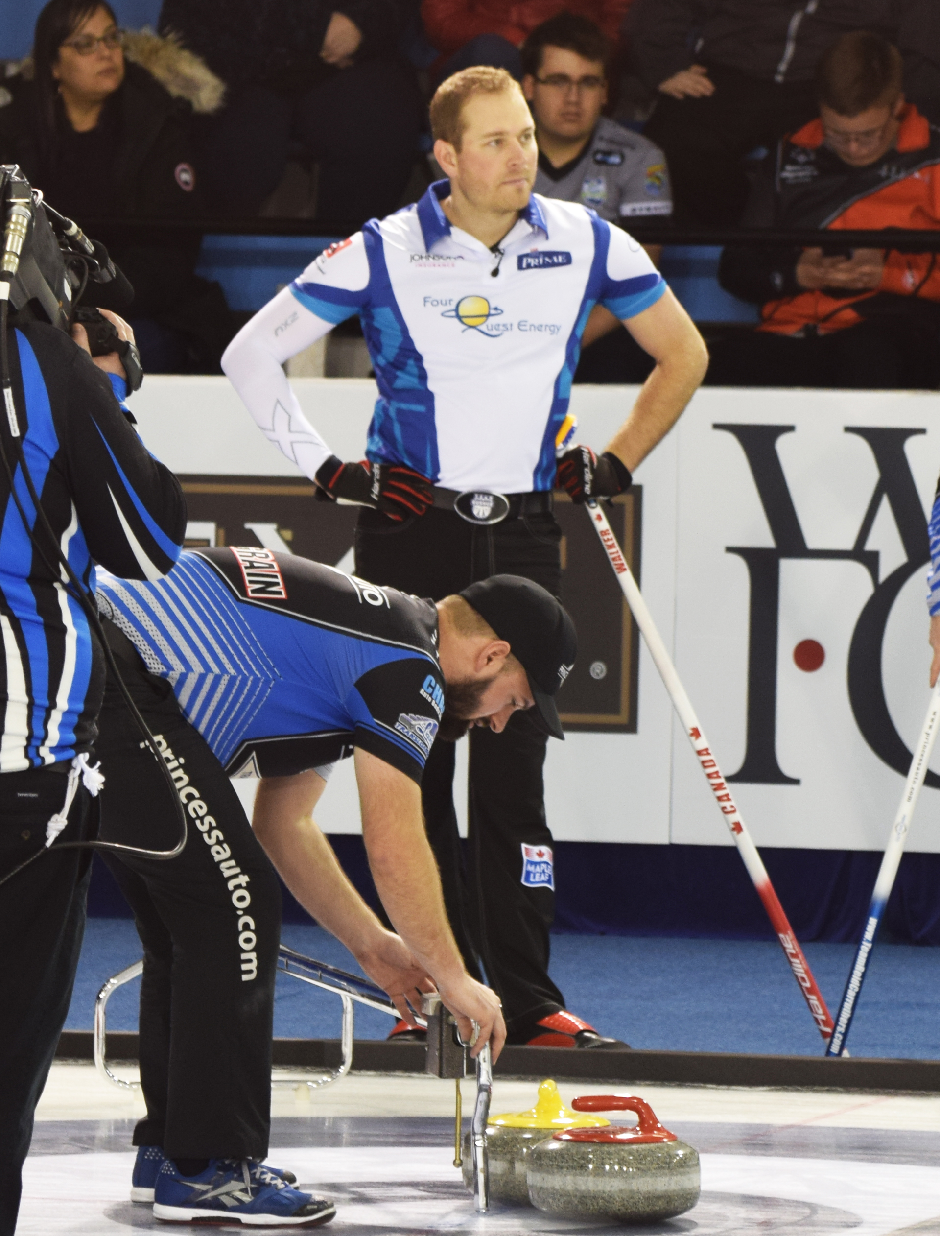 Geoff Walker waits while Reid Carruthers measures a stone at the 2018 Elite 10 in Winnipeg, Manitoba.